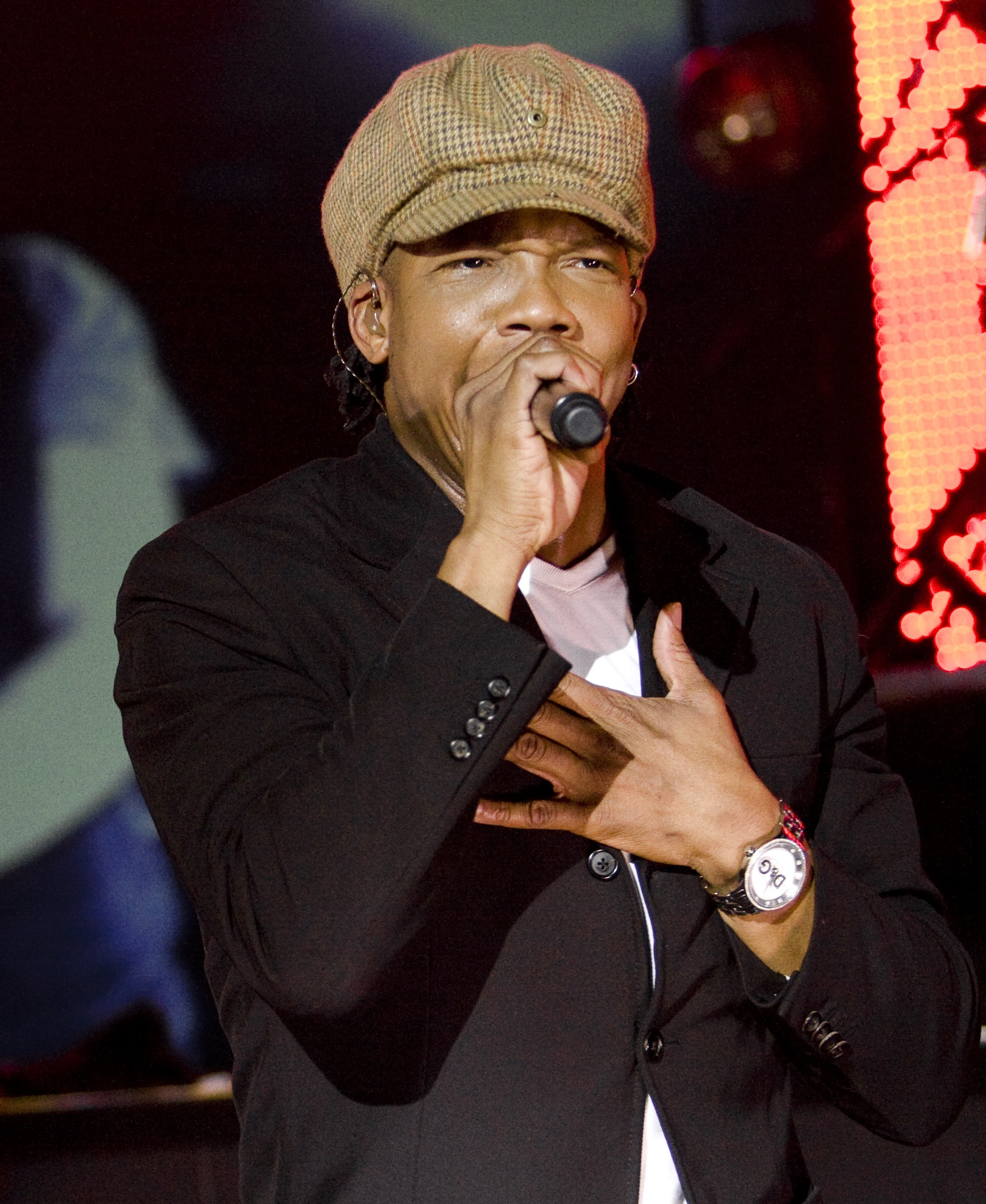 Michael Tait, lead vocalist of the Newsboys, performing a concert in March 2009.